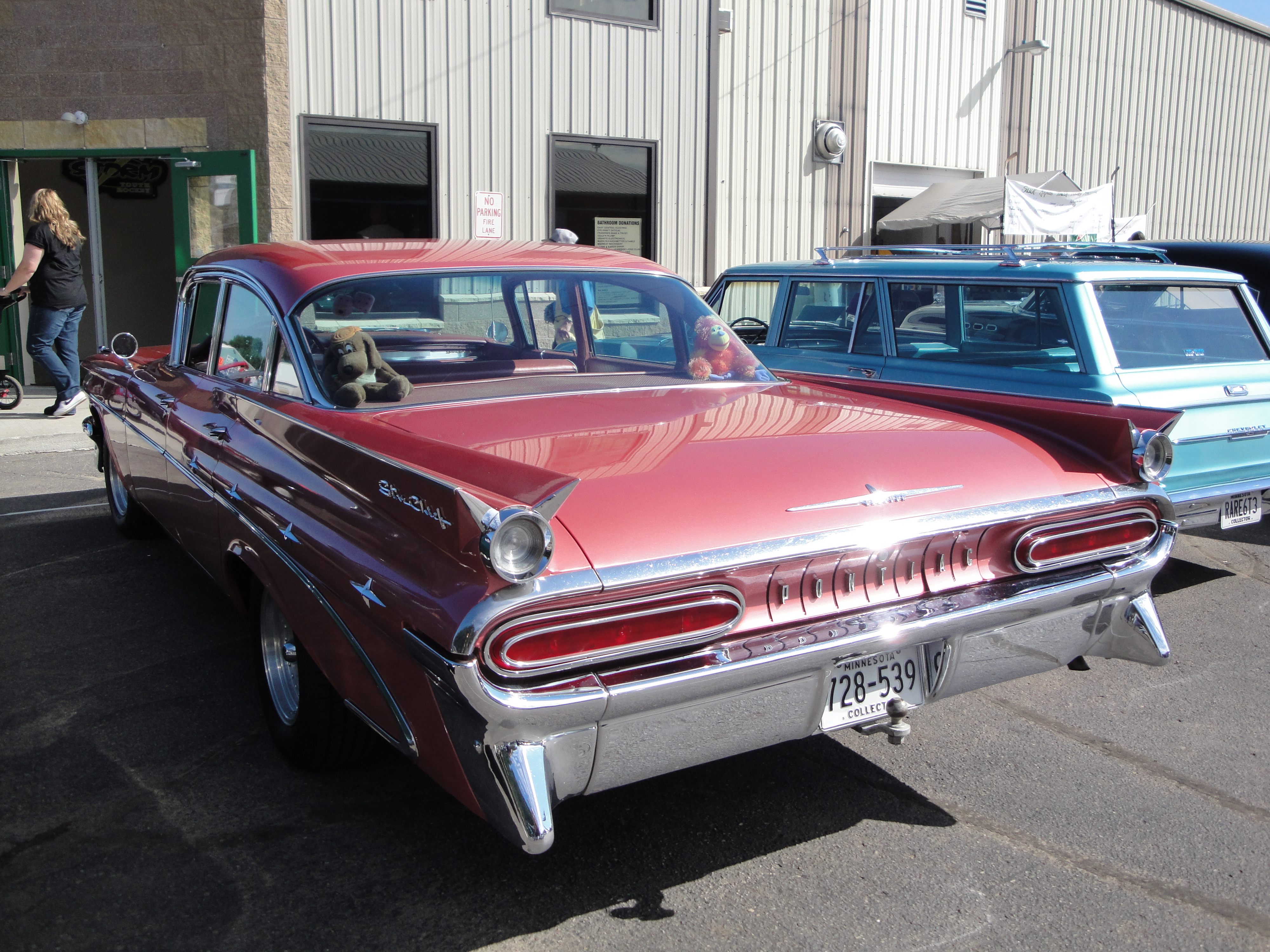 The Pantowners Annual Car Show and Swap Meet Sunday August 21, 2011